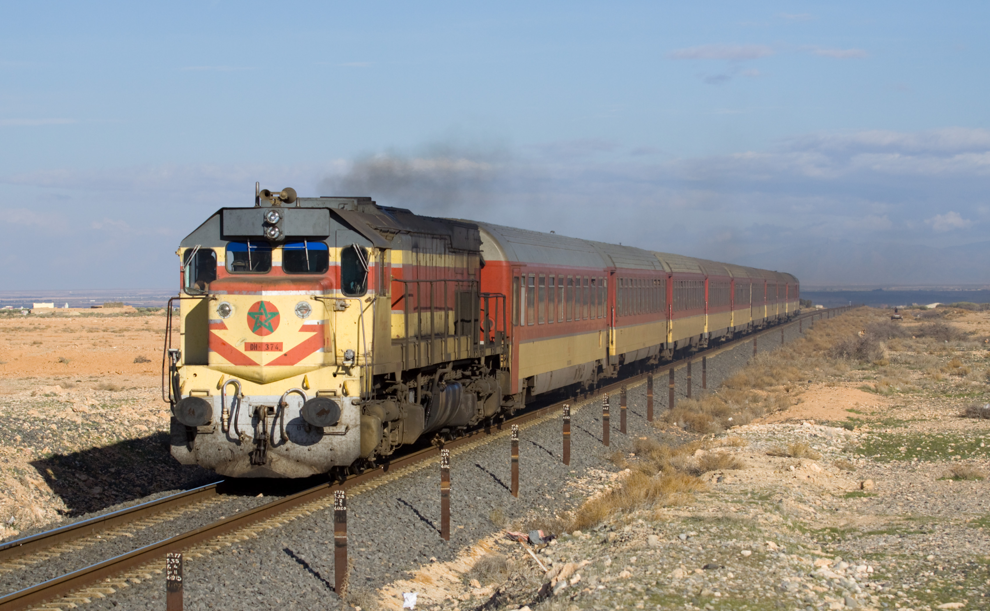 ONCF class DH 370 (number 374, EMD GT26CW-2) between Guercif and Safsafat, Morocco